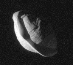 Saturn's moon Pan, photographed by the Cassini space probe from an angle that illustrate its thin equatorial ridge. Date taken: March 7, 2017.